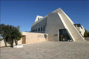 Yeshivat Har Etzion ( Obtained with express written permission from Yeshivat Har Etzion